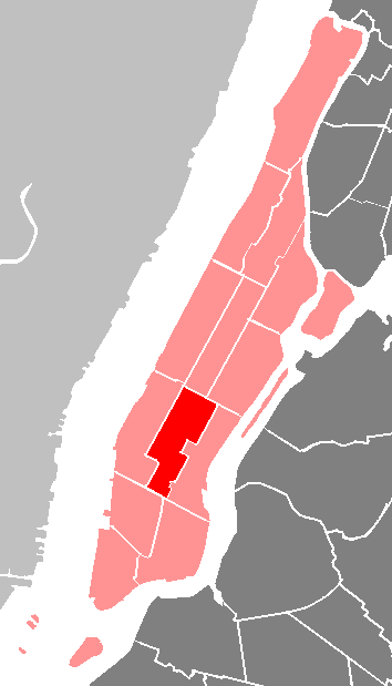 Category:Maps of New York City: New York City - Manhattan - Community Board 5.PNG